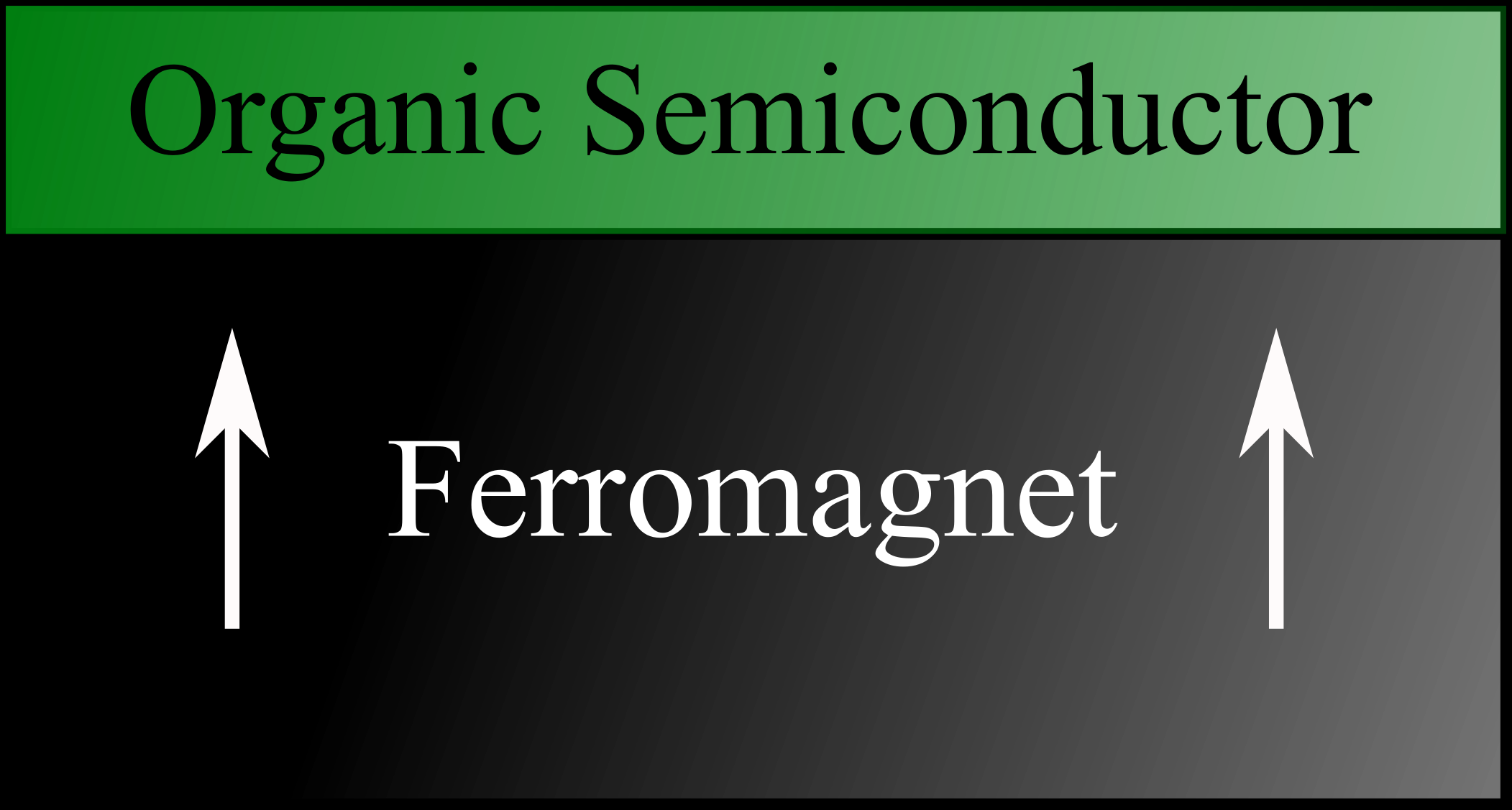 Organic semiconductor grown on a ferromagnetic substrate